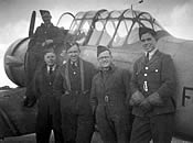 RAF Condover Airfield, England May 1945, from the Royal Ordinance Survey. Canadian airmen at RAF Condover posing next to a North American Harvard trainer aircraft